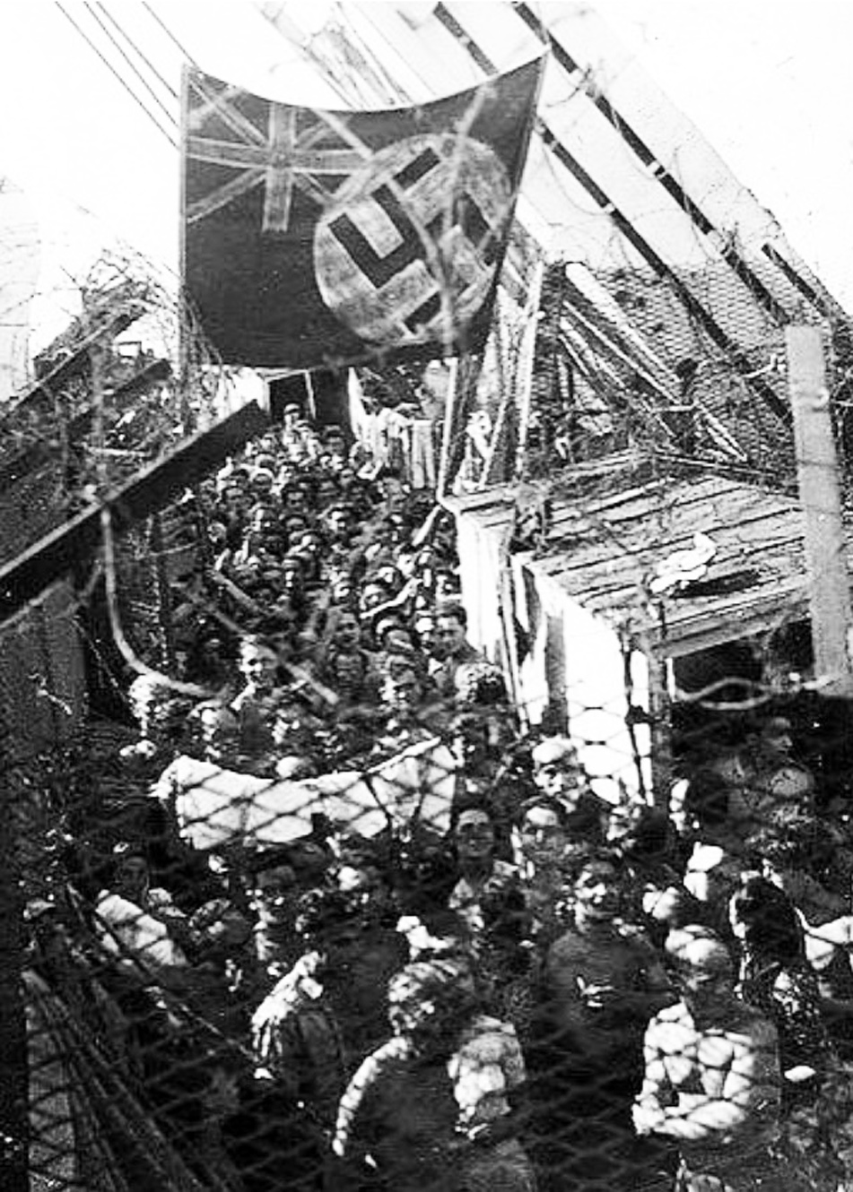 the immigrants raising a Union Jack flag on which they had painted a swastika.